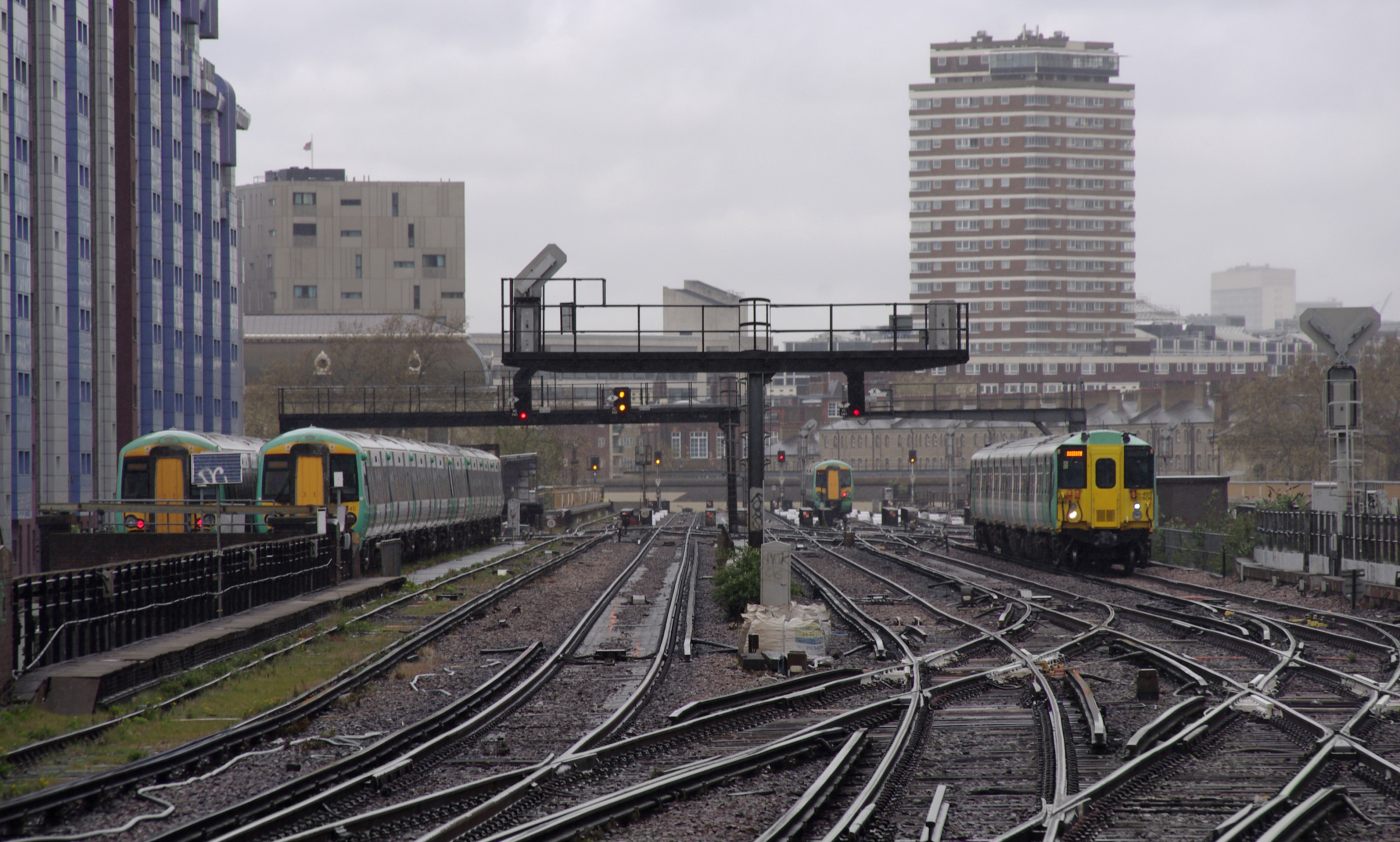 Looking north from Battersea Park railway station - Souther Class 377 "Electrostar" EMUs 377445 and a classmate sit in the sidings, 377453 speeds away from the camera and Class 455 EMU 455806 approaches.